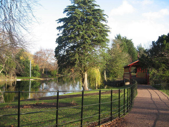 Birkenhead Park